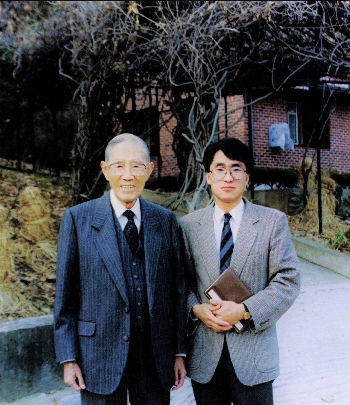 December 25, 1991 at the Namhansanseong(南漢山城) Christmas interview , Rev. Kyung-Chik Han and Seung-Moo Ha reporter (Thursday, December 19th at the of residence of Rev.Kyung-Chik Han) / (Shooting with the Self-automatic camera)